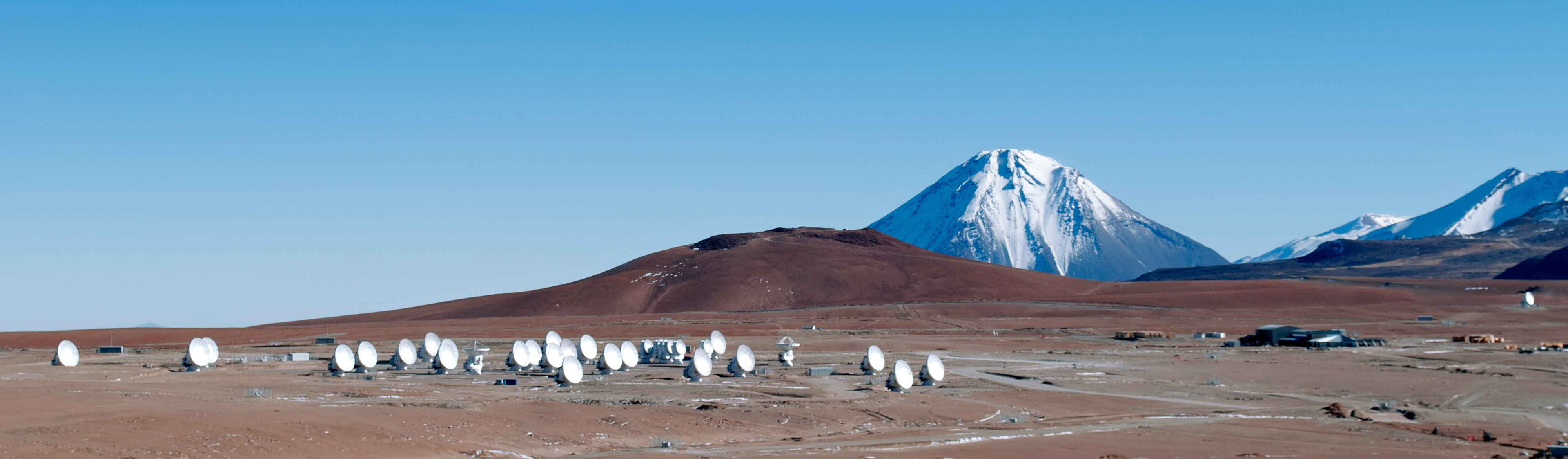 On 12 May 2012, another Atacama Large Millimeter/submillimeter Array (ALMA) antenna was carried up to the 5000-metre plateau of Chajnantor, bringing the total on the plateau to 33. This marks a half-way point for ALMA, as the telescope will have a total of 66 antennas when completed in 2013. The state-of-the-art ALMA antennas, which weigh about 100 tonnes each, need custom-constructed transporter vehicles to move them between the Operations Support Facility and the higher Array Operations Site. These twin transporters, as well as 25 antennas out of the final total of 66, are among ESO’s many contributions to the project.